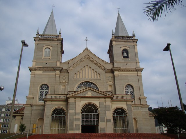 Metropolitan Cathedral of Juíz de Fora City, Minas Gerais, Brazil.